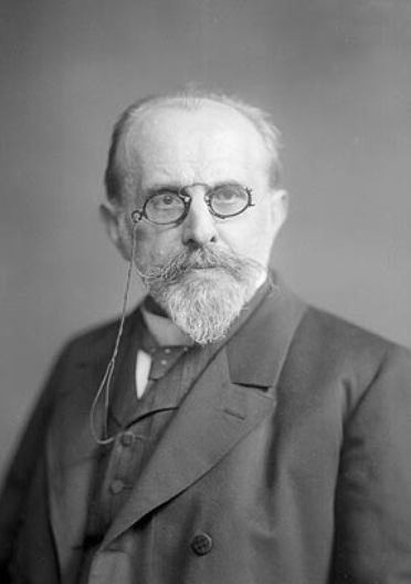 Prof. JUDr. Albín Bráf (1851-1912), Czech lawyer and economist.